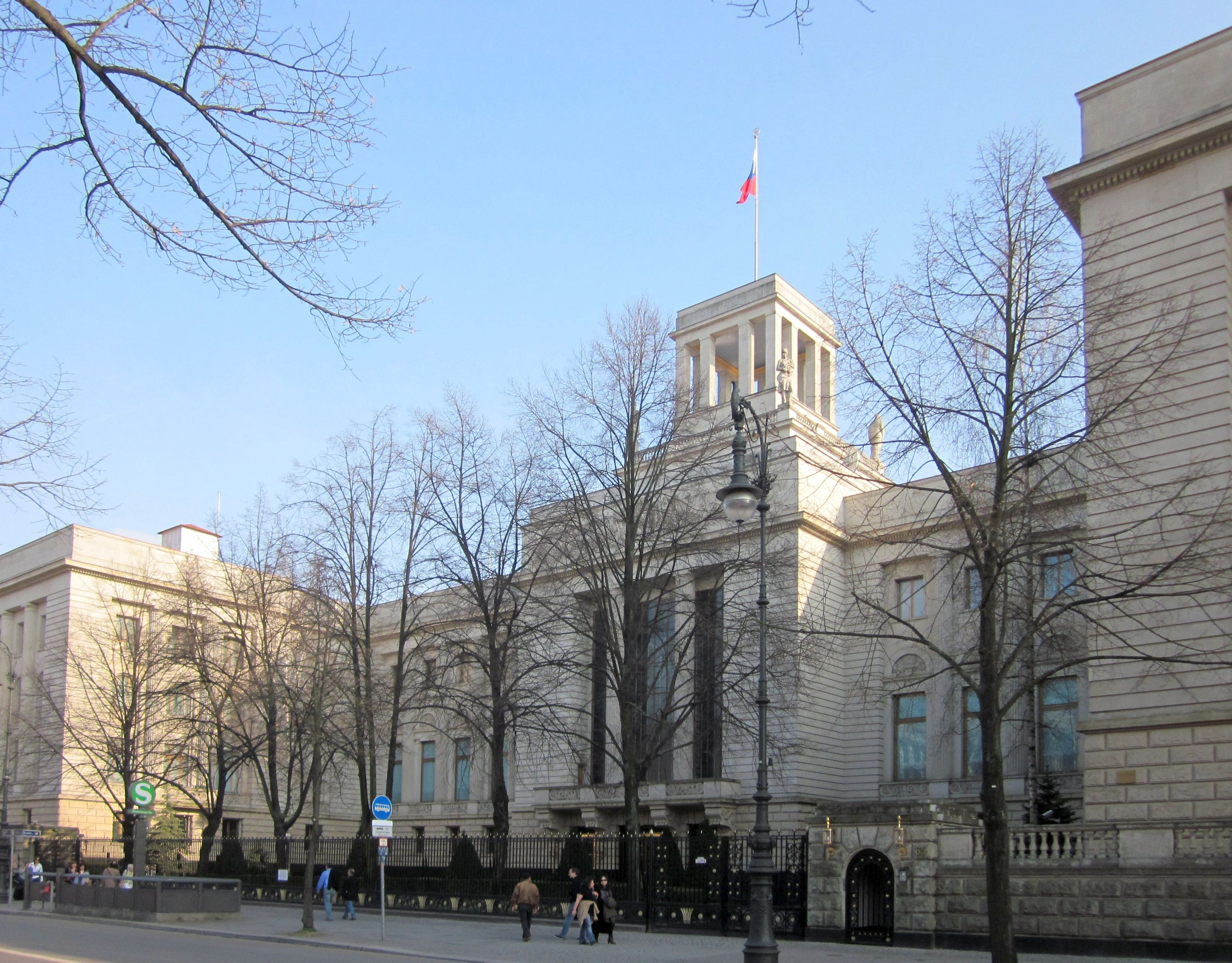 The Russian Embassy, Unter den Linden 55-65, in Berlin-Mitte. The monumental complex was built from 1949 to 1951. It has been designated as a historic landmark.